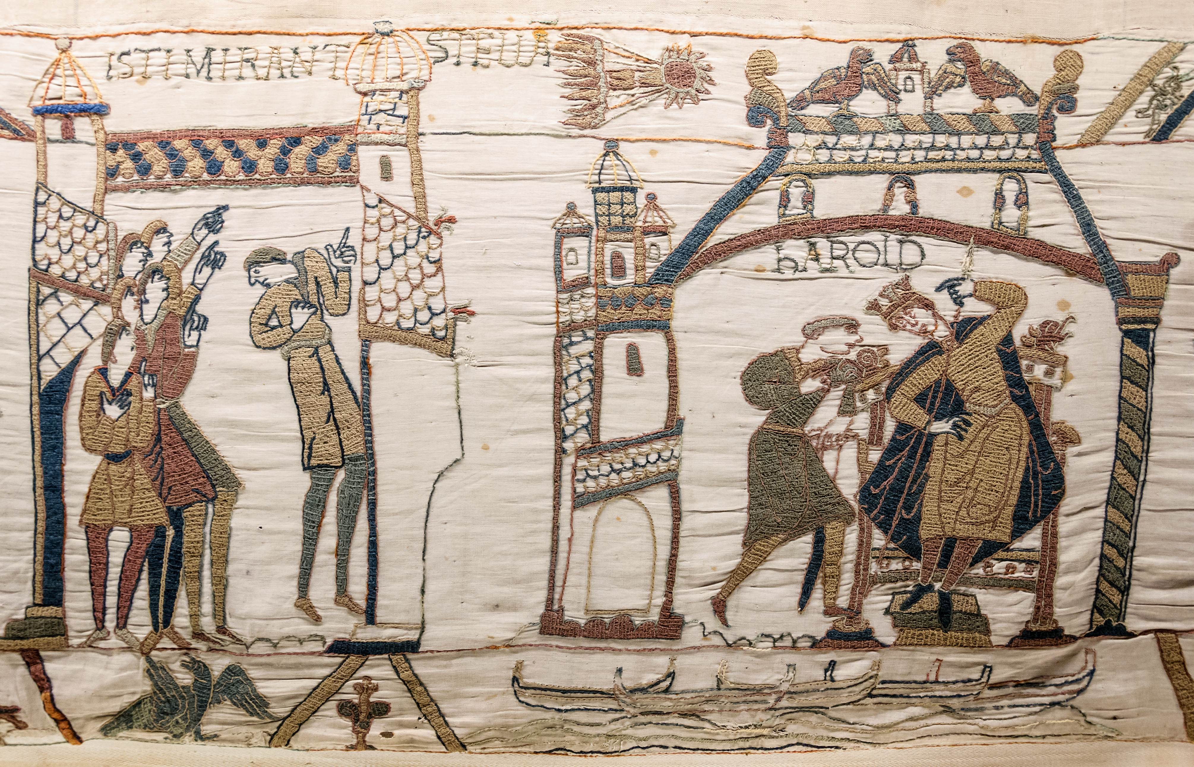 Bayeux Tapestry - Scene 32 : men staring at Halley's Comet - Scene 33 : Harold at Westminster